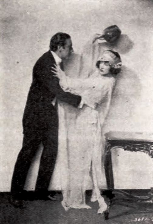 Still from the American comedy drama film A Parisian Scandal (1921) with Marie Prevost, on page 61 of the January 21, 1922 Exhibitors Herald.